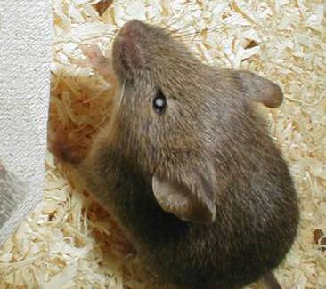 Knockout-Mouse (DHAPAT-Gene Deleted) with typical Cataract as a result of Plasmalogen loss.